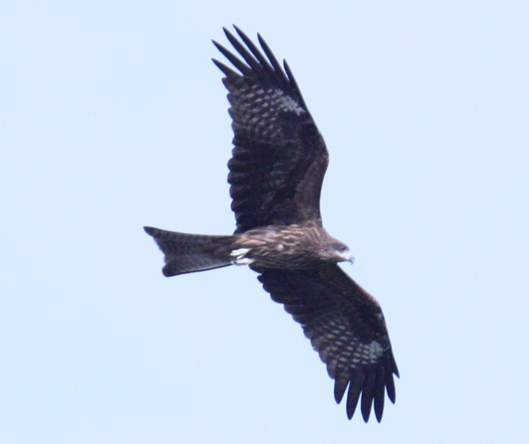 Milvus migrans lineatus in Hong Kong